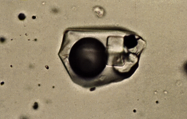 "Trapped in a time capsule the same size as the diameter of a human hair, the ore-forming liquid in this inclusion was so hot and contained so much dissolved solids that when it cooled, crystals of halite, sylvite, gypsum, and hematite formed. As the samples cooled, the fluid shrank more than the surrounding mineral, and created a vapor bubble. Heating the inclusion to the temperature at which the bubble is reabsorbed and daughter crystals dissolve gives an estimate of the minimum temperature at the moment of ore formation."